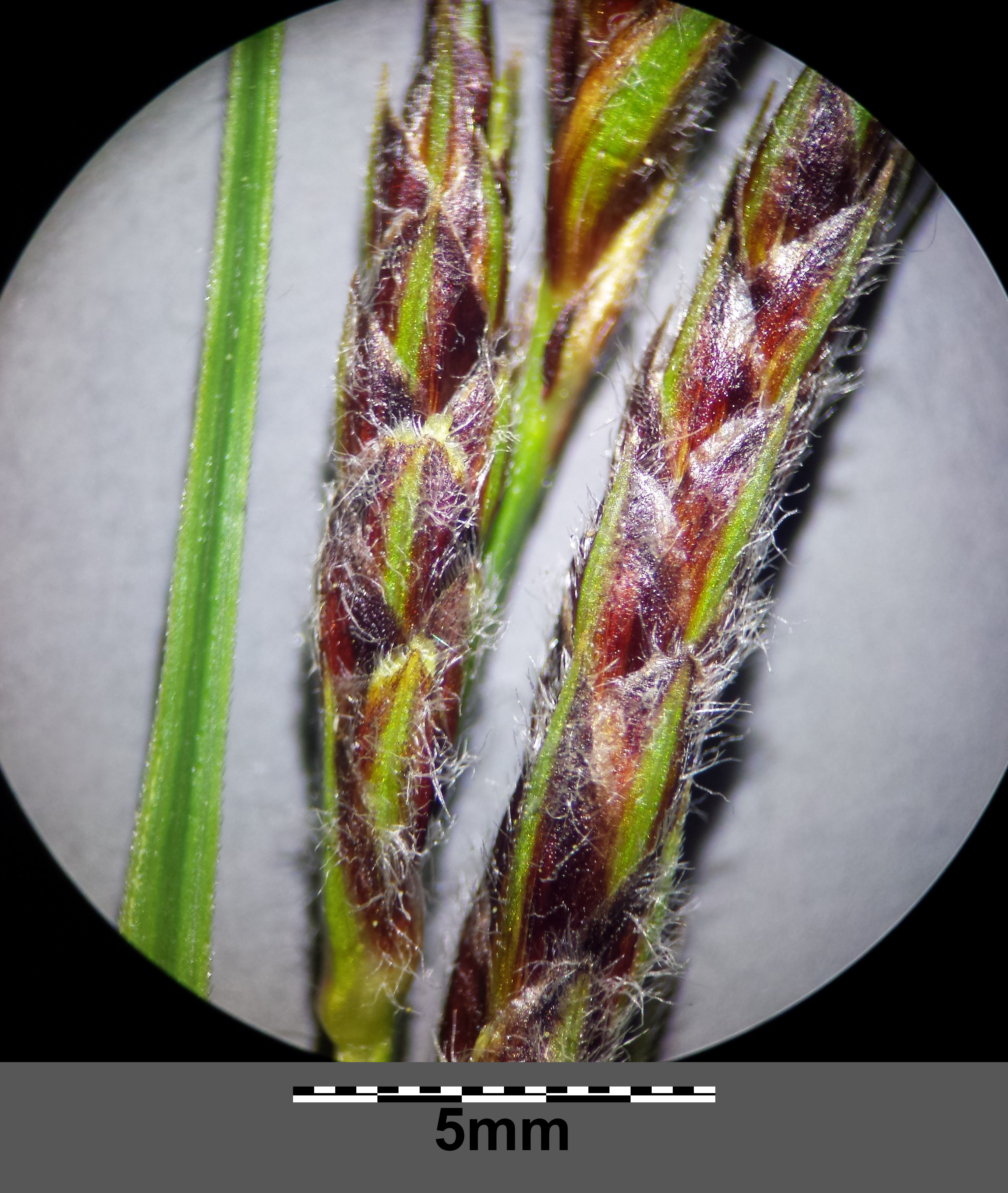 ♂ spikes with hairy glumes Taxonym: Carex hirta ss Fischer et al. EfÖLS 2008 ISBN 978-3-85474-187-9 Location: Schwarzlackenau, Vienna-Floridsdorf - ca. 160 m a.s.l. Habitat: ruderal area